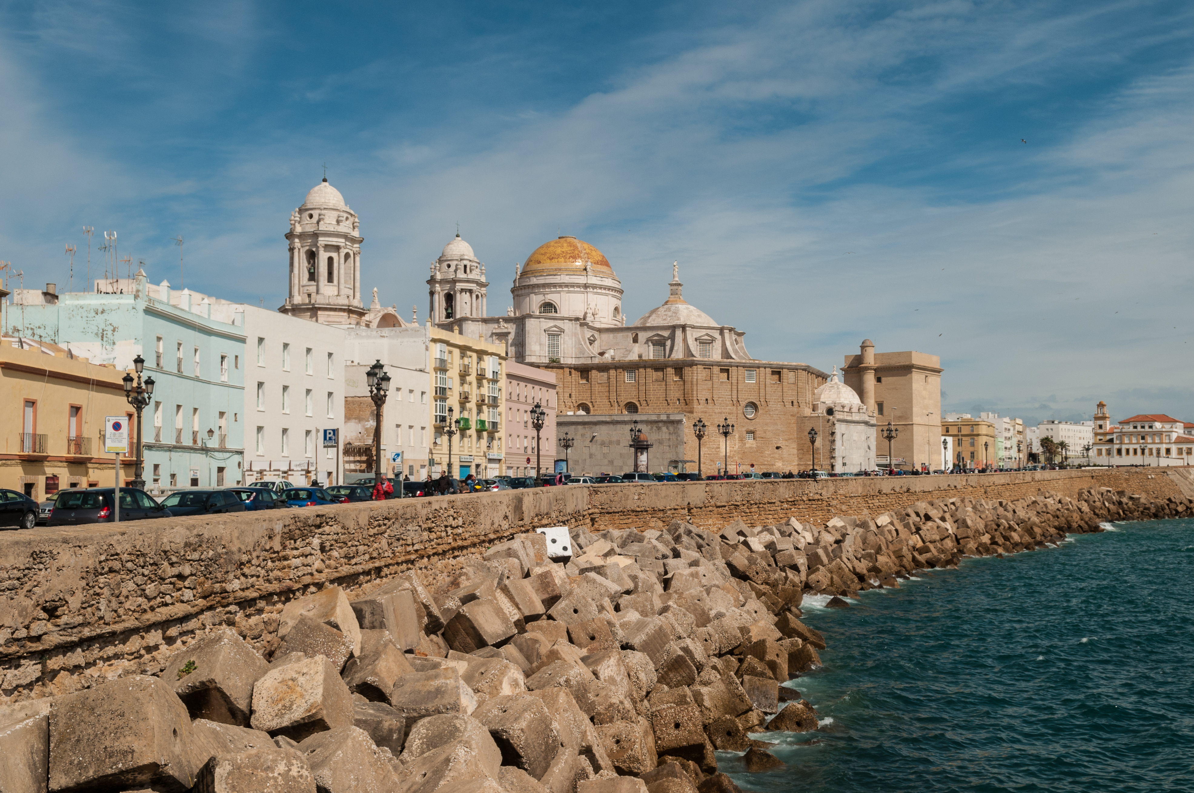 Cadiz (Spanish: Cádiz) is a city and port in southwestern Spain. It is the capital of the homonymous province, one of eight which make up the autonomous community of Andalusia. Cadiz, the oldest continuously-inhabited city in the Iberian Peninsula and possibly all southwestern Europe, has been a principal home port of the Spanish Navy since the accession of the Spanish Bourbons in the 18th century. The city is a member of the Most Ancient European Towns Network. It is also the site of the University of Cadiz. Despite its unique site — on a narrow slice of land surrounded by the sea — Cadiz is, in most respects, a typically Andalusian city with a wealth of attractive vistas and well-preserved historical landmarks. The older part of Cadiz, within the remnants of the city walls, is commonly referred to as the Old Town (in Spanish, Casco Antiguo). It is characterized by the antiquity of its various quarters (barrios), among them El Pópulo, La Viña, and Santa María, which present a marked contrast to the newer areas of town. While the Old City's street plan consists of narrow winding alleys connecting large plazas, newer areas of Cadiz typically have wide avenues and more modern buildings. In addition, the city is dotted by numerous parks where exotic plants flourish, including giant trees supposedly brought to Spain by Columbus from the New World. Cadiz. (2012, April 9). In Wikipedia, The Free Encyclopedia. Retrieved 19:12, April 14, 2012, from